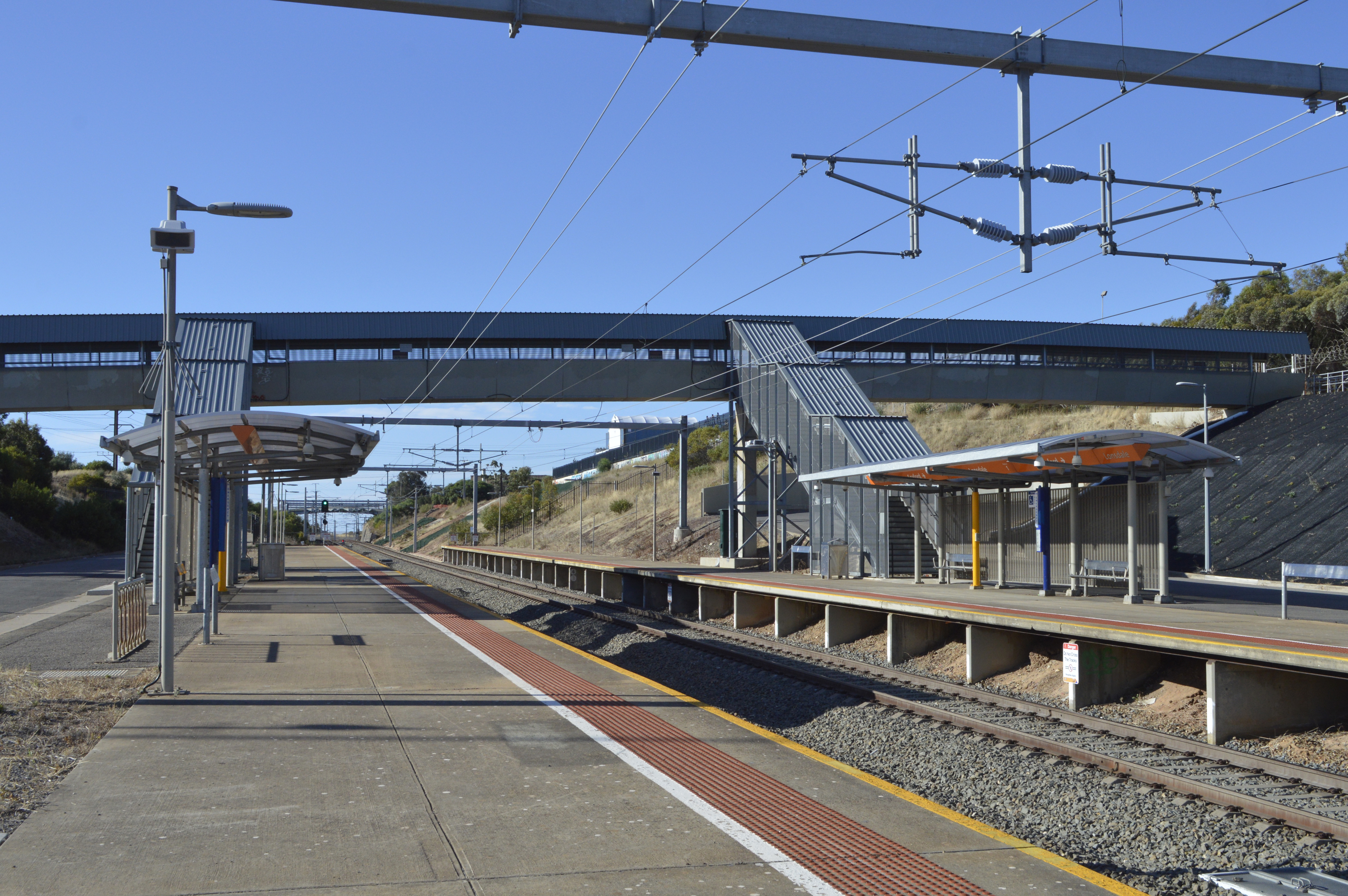 Lonsdale station in January 2018 after the 2011 rebuild and electrification.